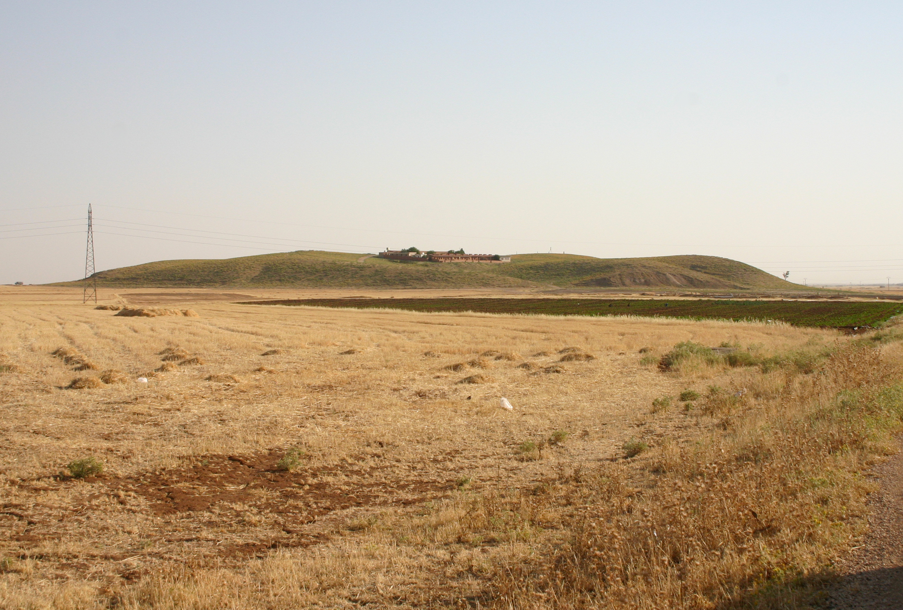 View of Tell Mozan (northeast Syria), ancient Urkesh, from the north. The dighouse can be seen in the middle of the tell.